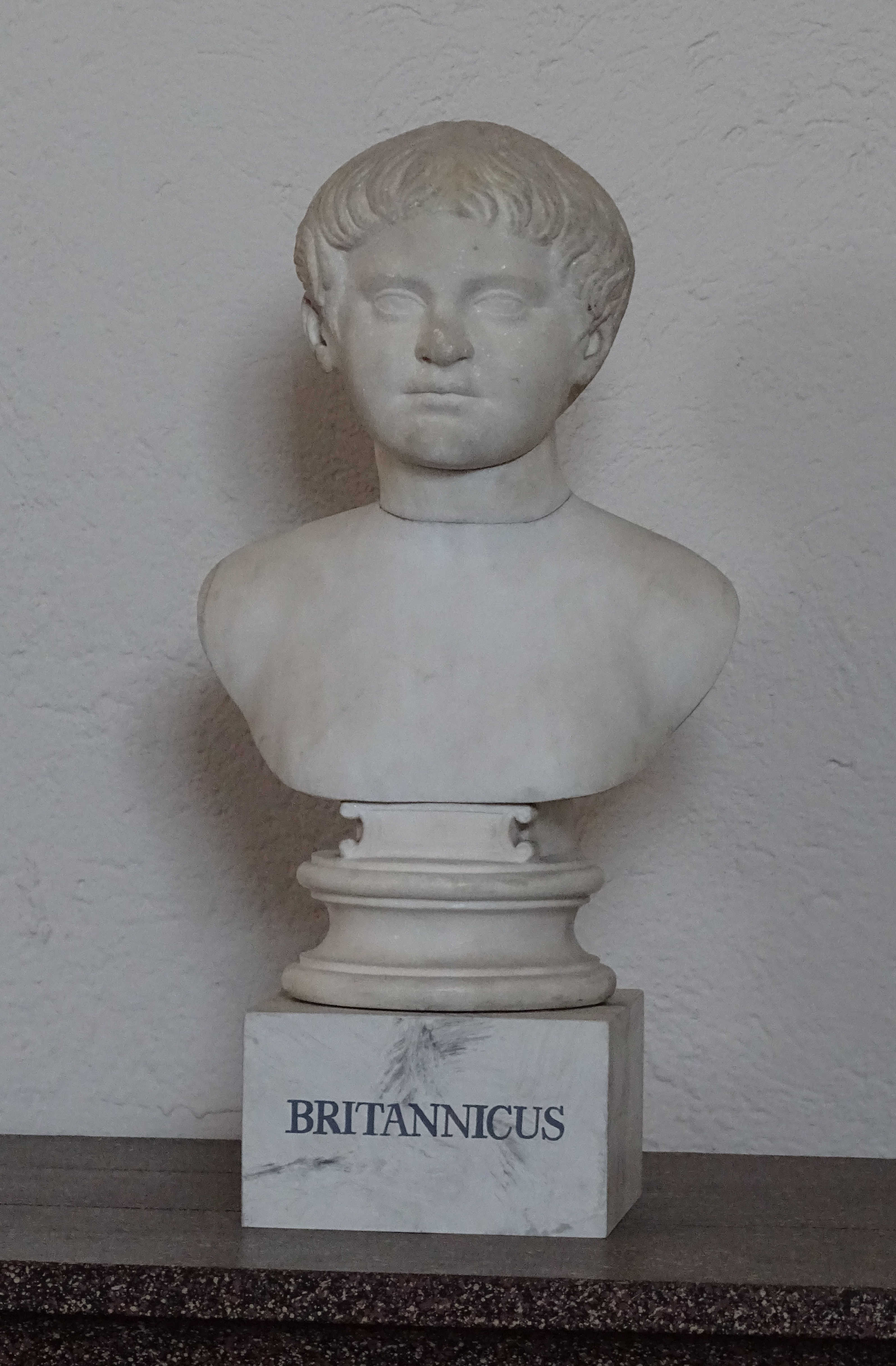 Roman bust of Britannicus in Gustav IIIs Antikmuseum, Royal Palace, Stockholm, Sweden.